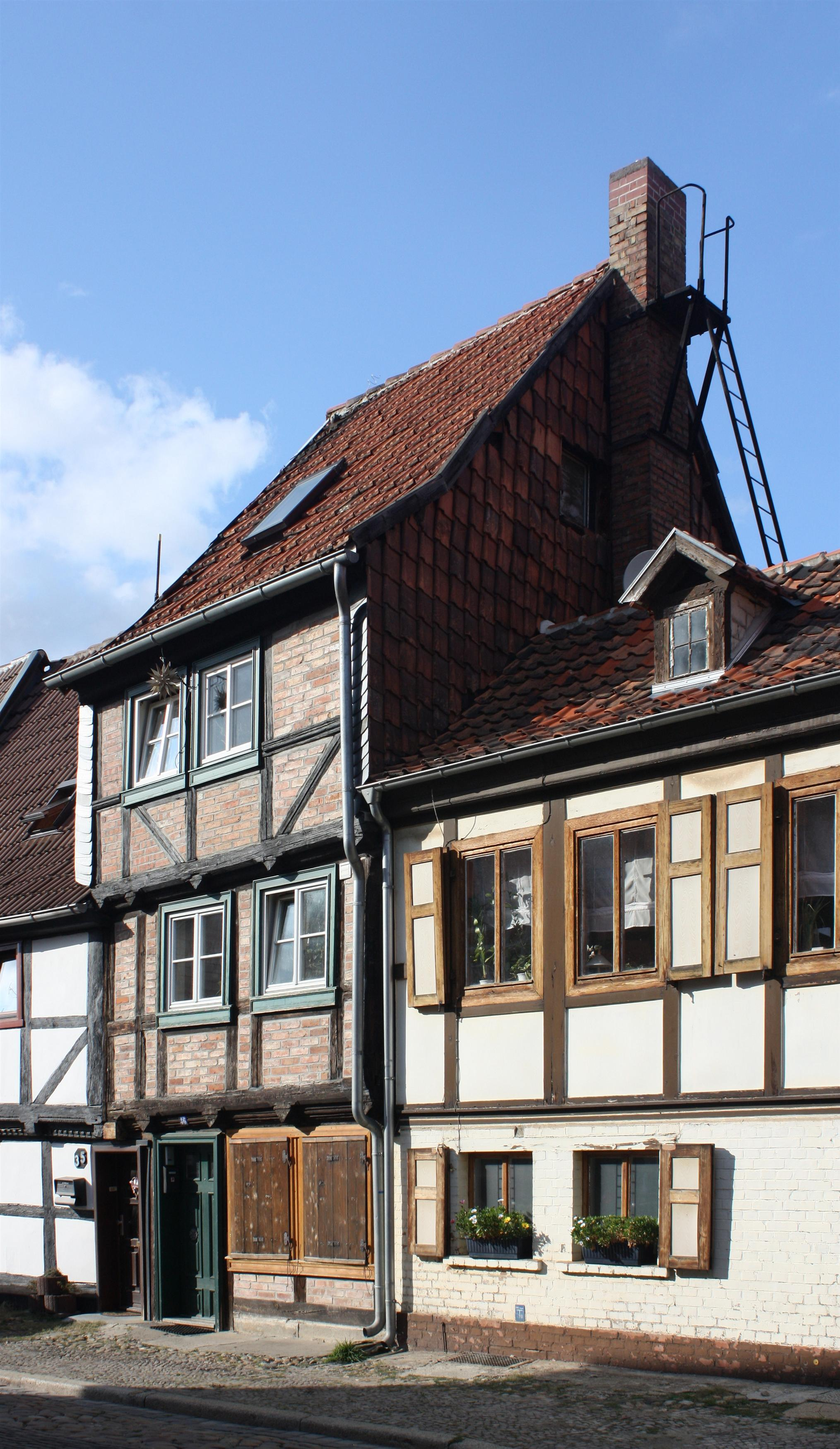 This is a photograph of an architectural monument.It is on the list of cultural monuments of Quedlinburg Augustinern 36 in Quedlinburg